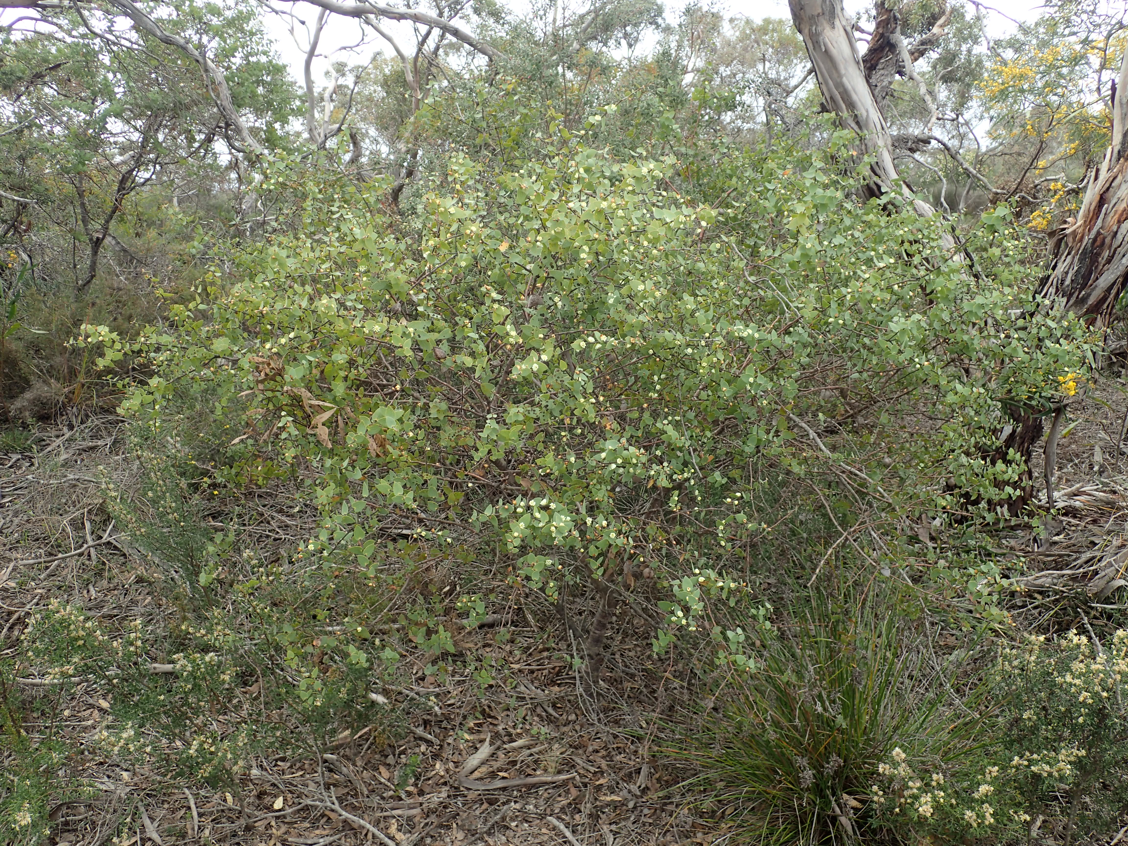 Typical habit of Hakea ferruginea